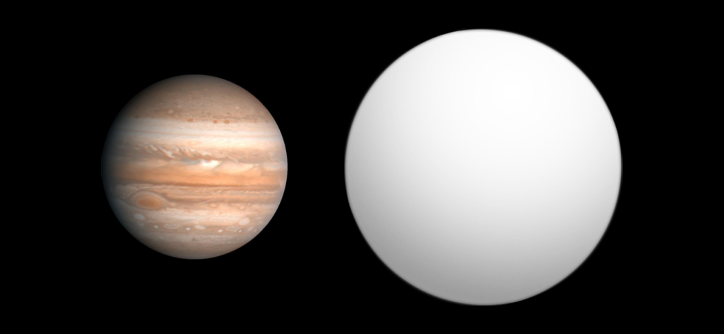 Comparison of best-fit size of the exoplanet CoRoT-1 b with the Solar System planet Jupiter, as reported in the Extrasolar Planets Encyclopaedia[1] as of 2010-10-03. ↑ Extrasolar Planets Encyclopaedia (2010-09-30). Retrieved on 2010-10-03.